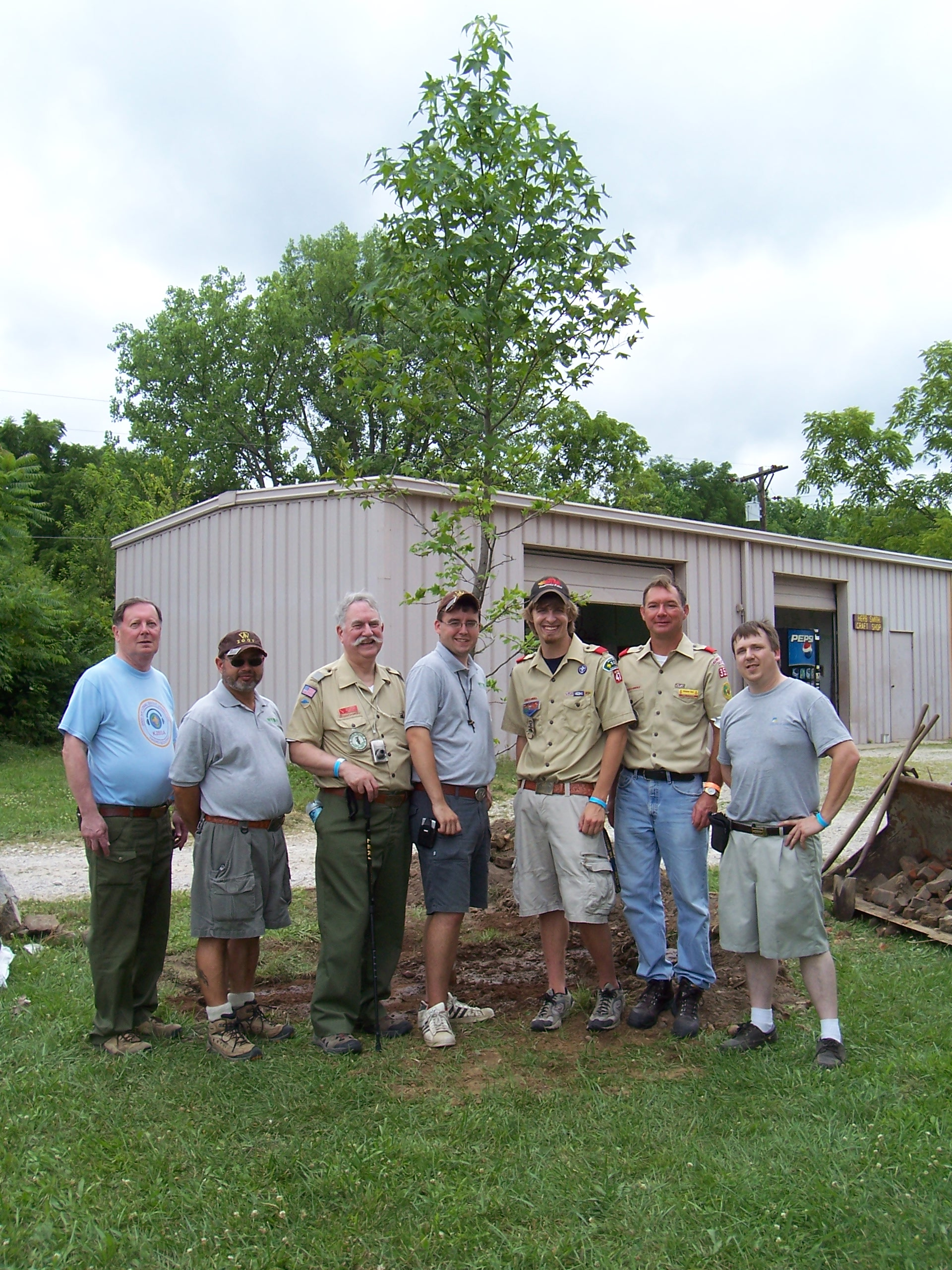 Former campers and staff alumni standing in front of the memorial tree planted at Woodland Trails Scout Reservation on the 50th anniversary in July 2010